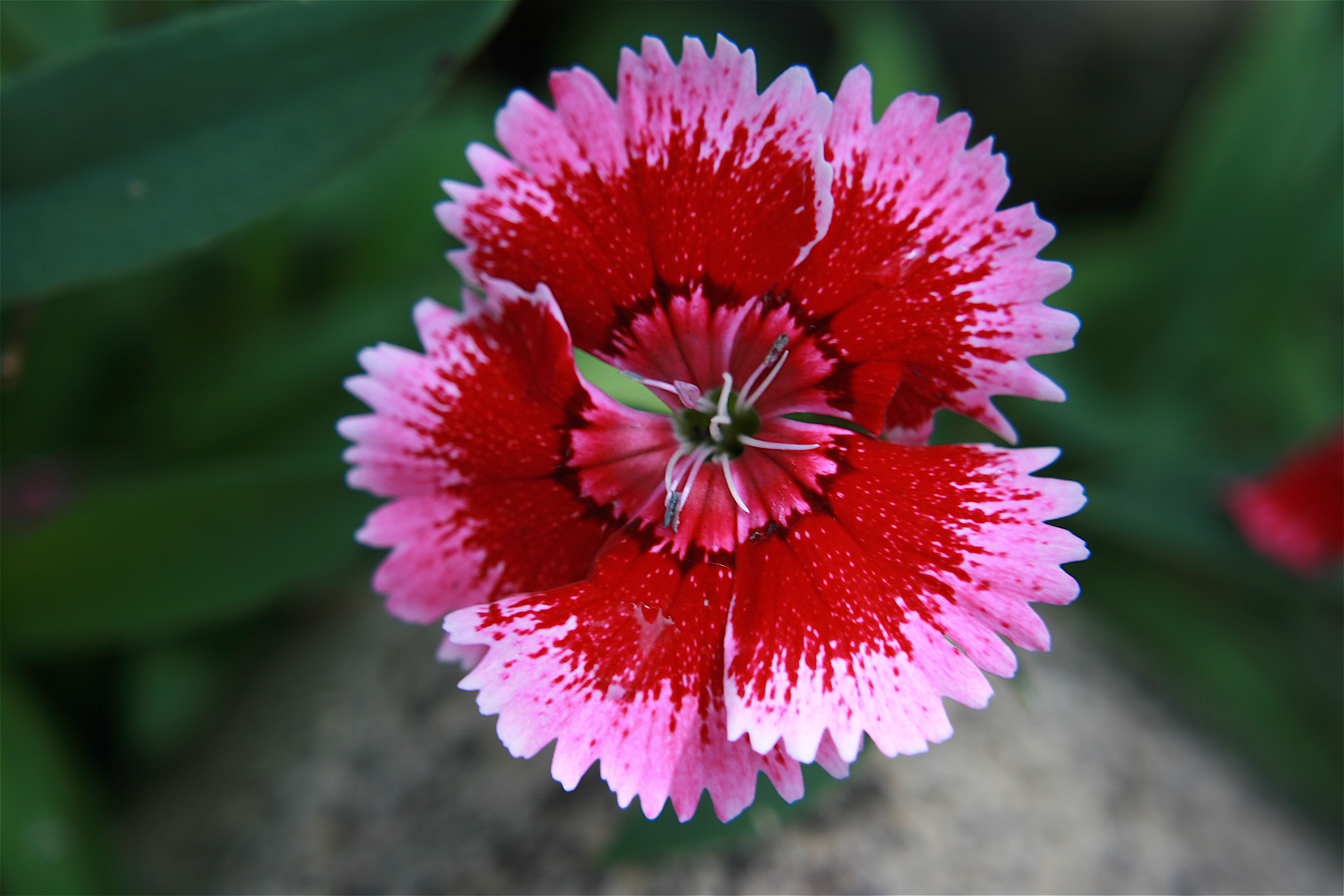 Alpine Pink Cultivar (Dianthus alpinus) found in a Portage garden.